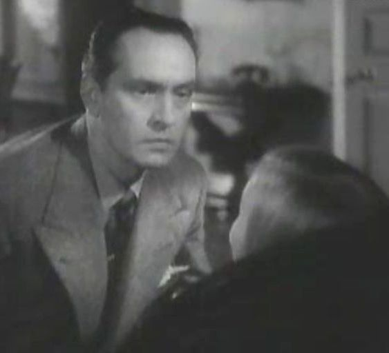 Screenshot of Fredric March from the trailer for the film I Married a Witch (1942).